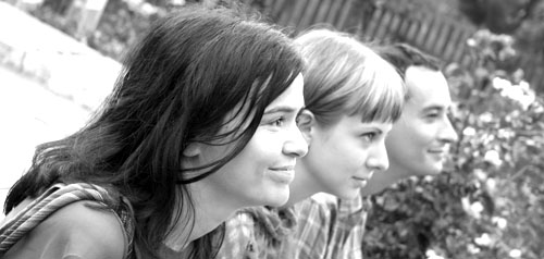 A sample image for image burning -- this in the B&W version, burnt for "artistic" purposes. Copyright Gutza 2004